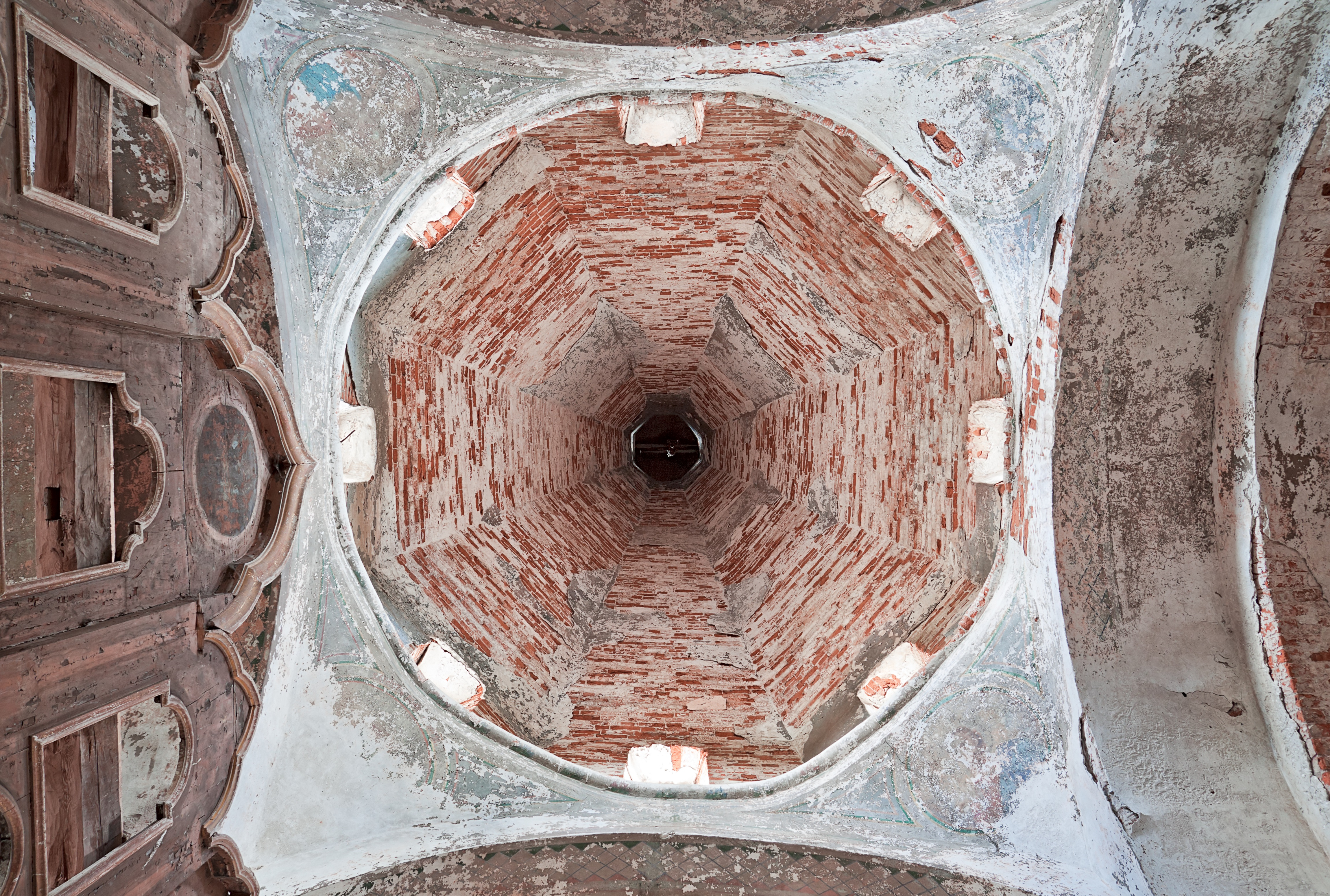 The church of Saint Metropolitan Peter, Pereslavl. Roof view from inside.